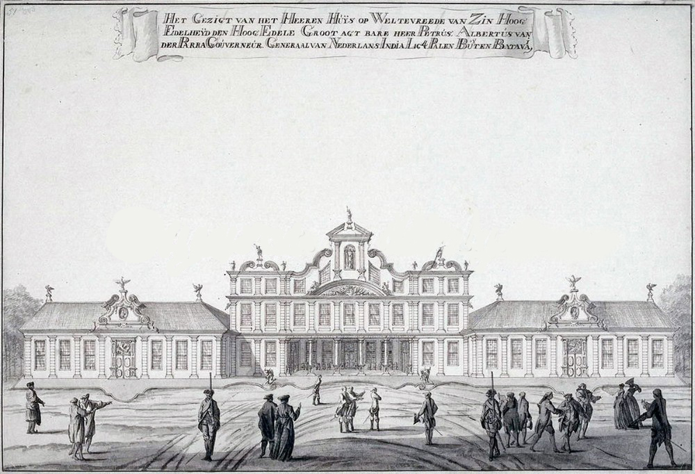 View of Weltevreden country house, during the time of governor-general Van der Parra. Weltevreden country house was built by governor-general Jacob Mossel in 1761 and was sold to Van der Parra in 1767.